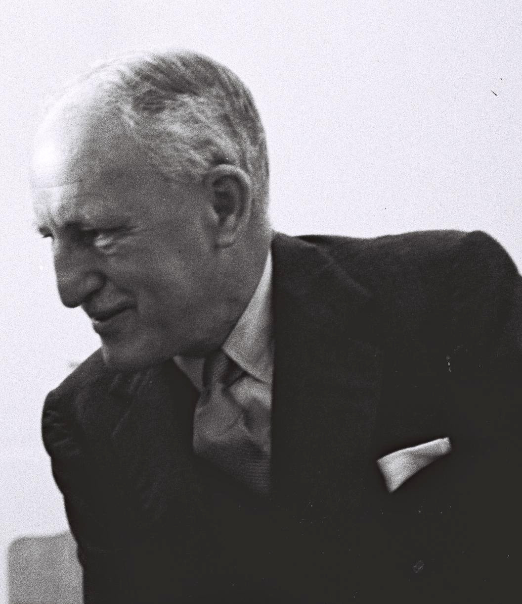 Original Description: BRITISH AMBASSADOR ALEXANDER KNOX HELM IN CONVERSATION WITH PRES. WEIZMANN AT THE INDEPENDENCE DAY RECEPTION AT THE PRESIDENT'S RESIDENCE IN REHOVOT.